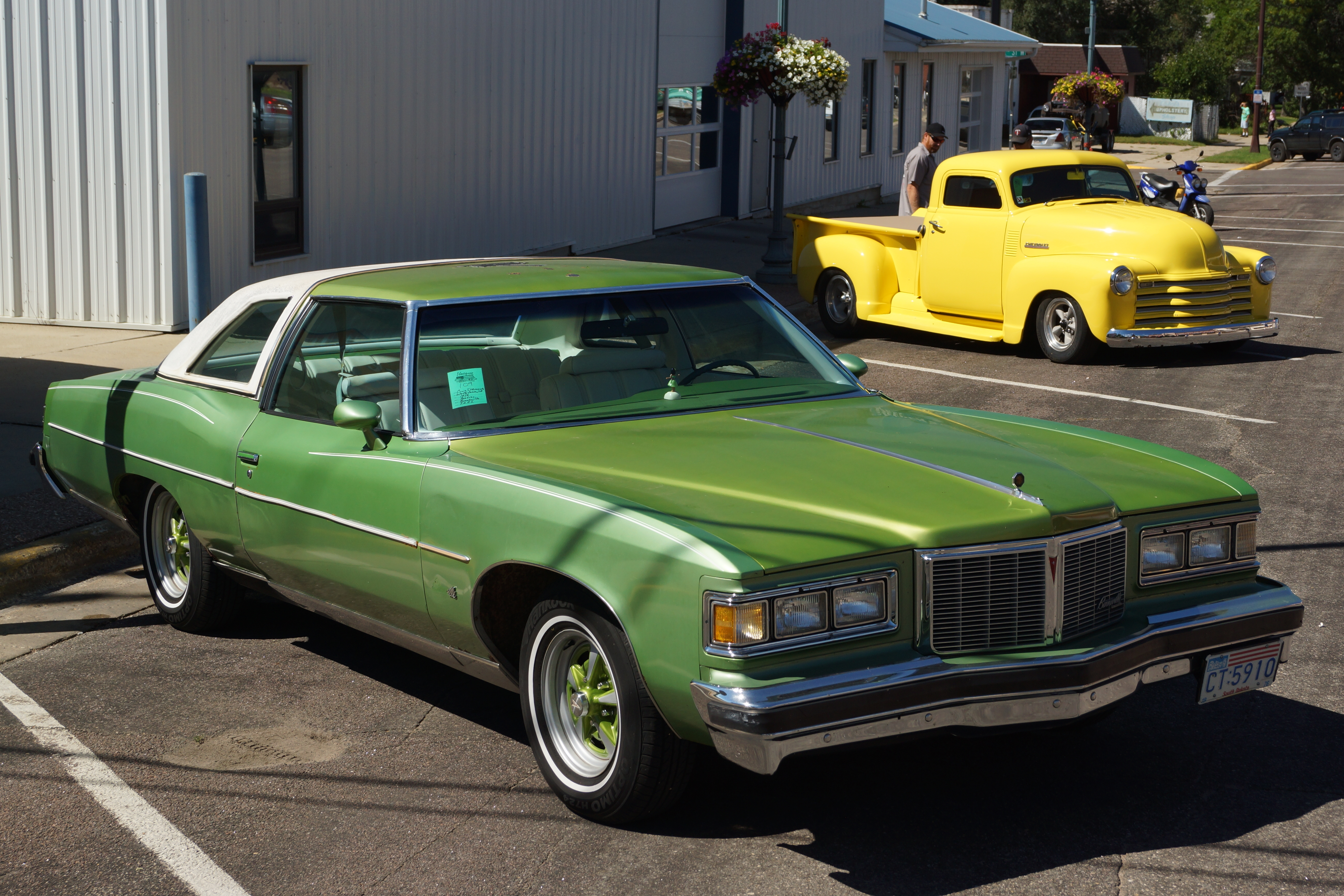 37th ANNIVERSARY VINTIQUES ROD RUN & KAMP OUT Show & Shine Uptown Watertown Watertown, South Dakota September 2016 Click here for more car pictures at my Flickr site.